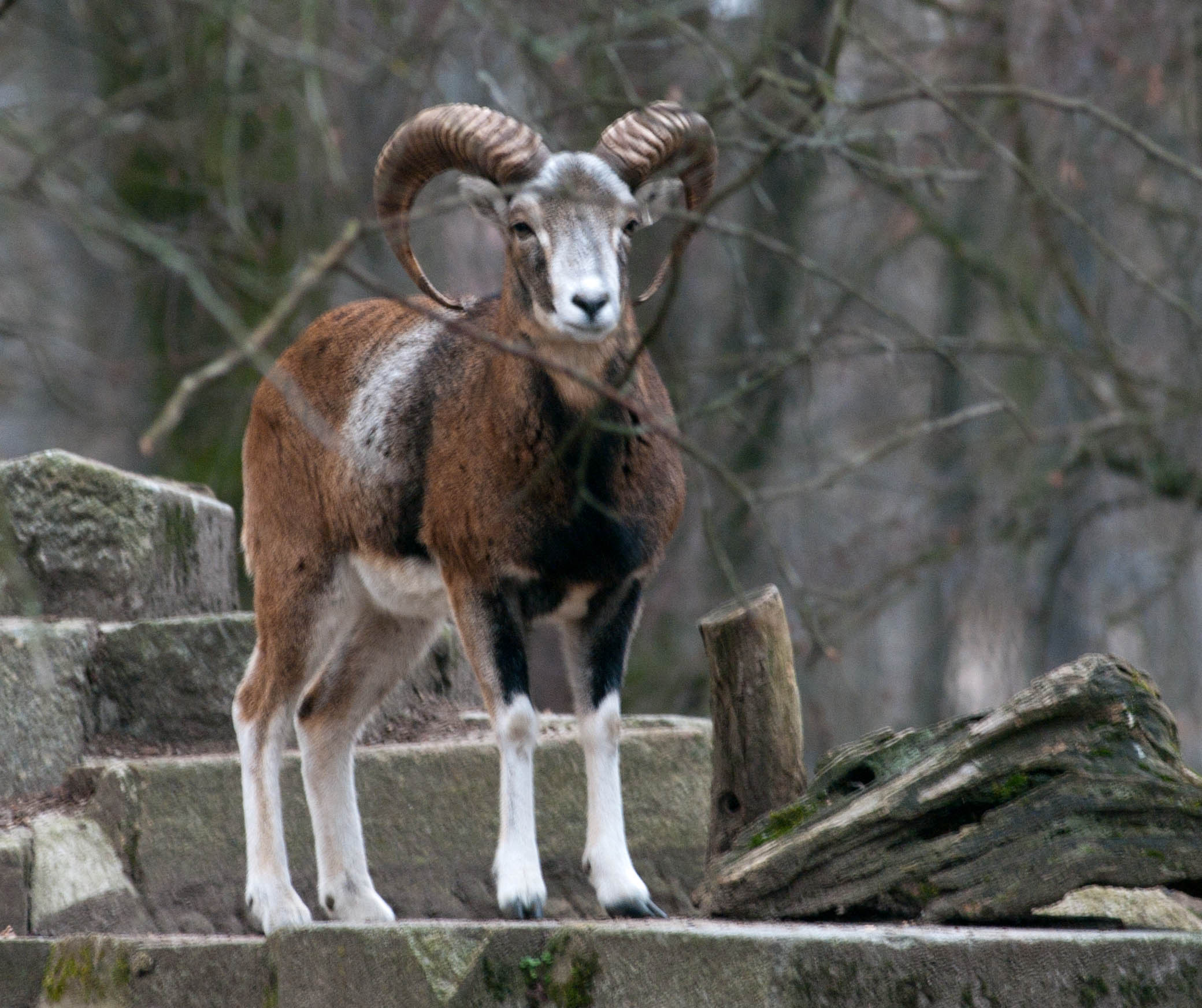 Volkspark Rehberge, Berlin, in march 2016